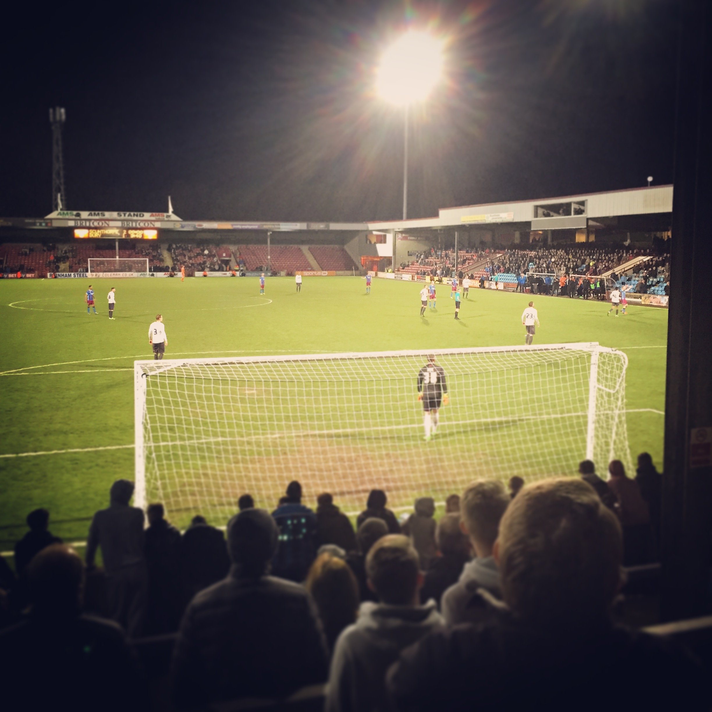 Photo taken during Scunthorpe United F.C v Bury F.C from the 'Doncaster Road End (DRE)'. Match finished 2-1, with goals from Luke Williams & Kyle Wootton for Scunthorpe and Tom Pope for Bury.